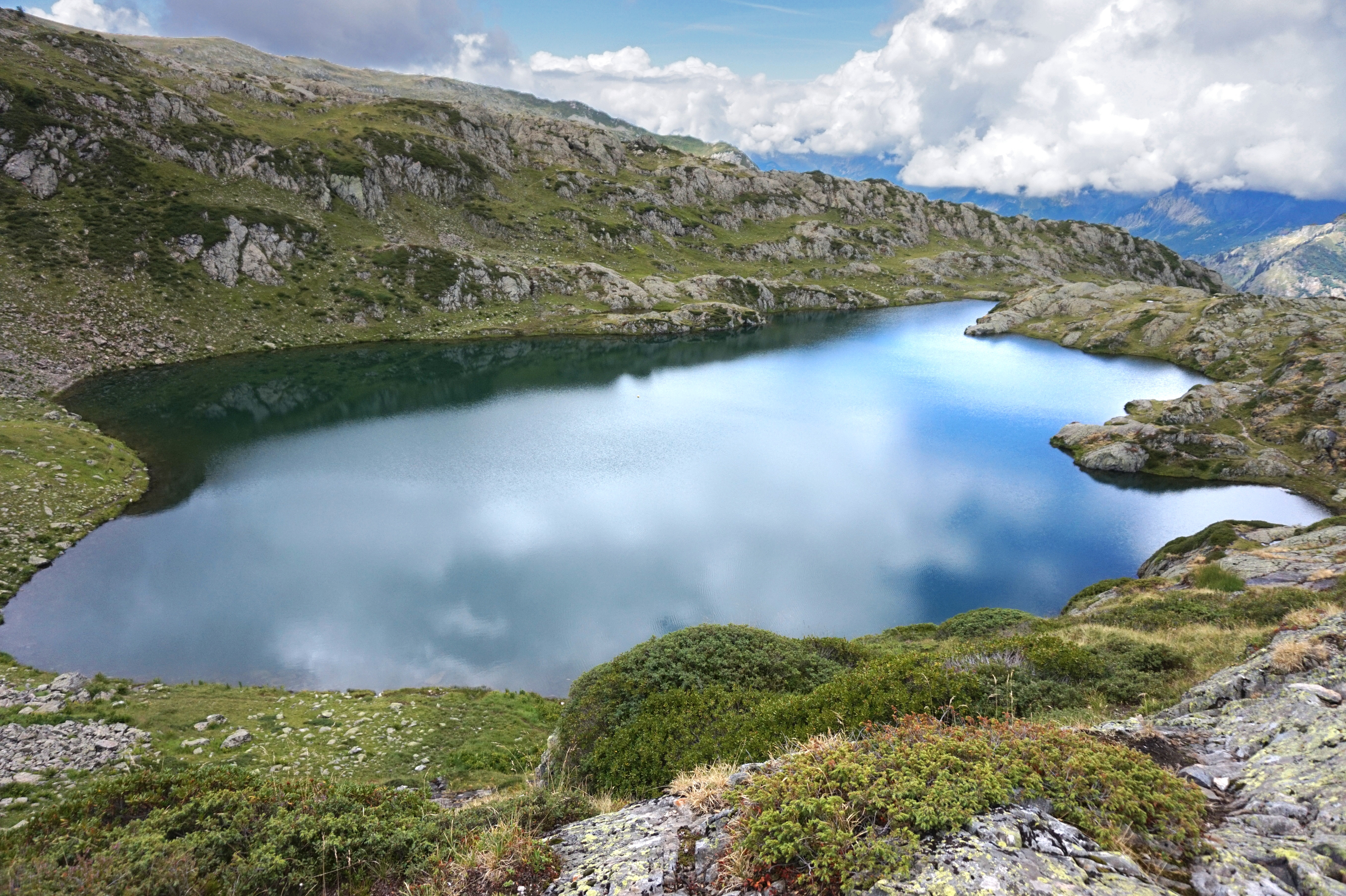 The mountain lake Lac du Brévent in France. This photograph was taken with a Sony Alpha a5000.